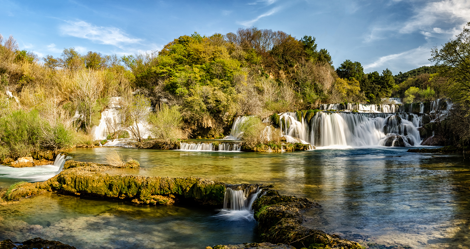 KRKA Waterfall in Croatia